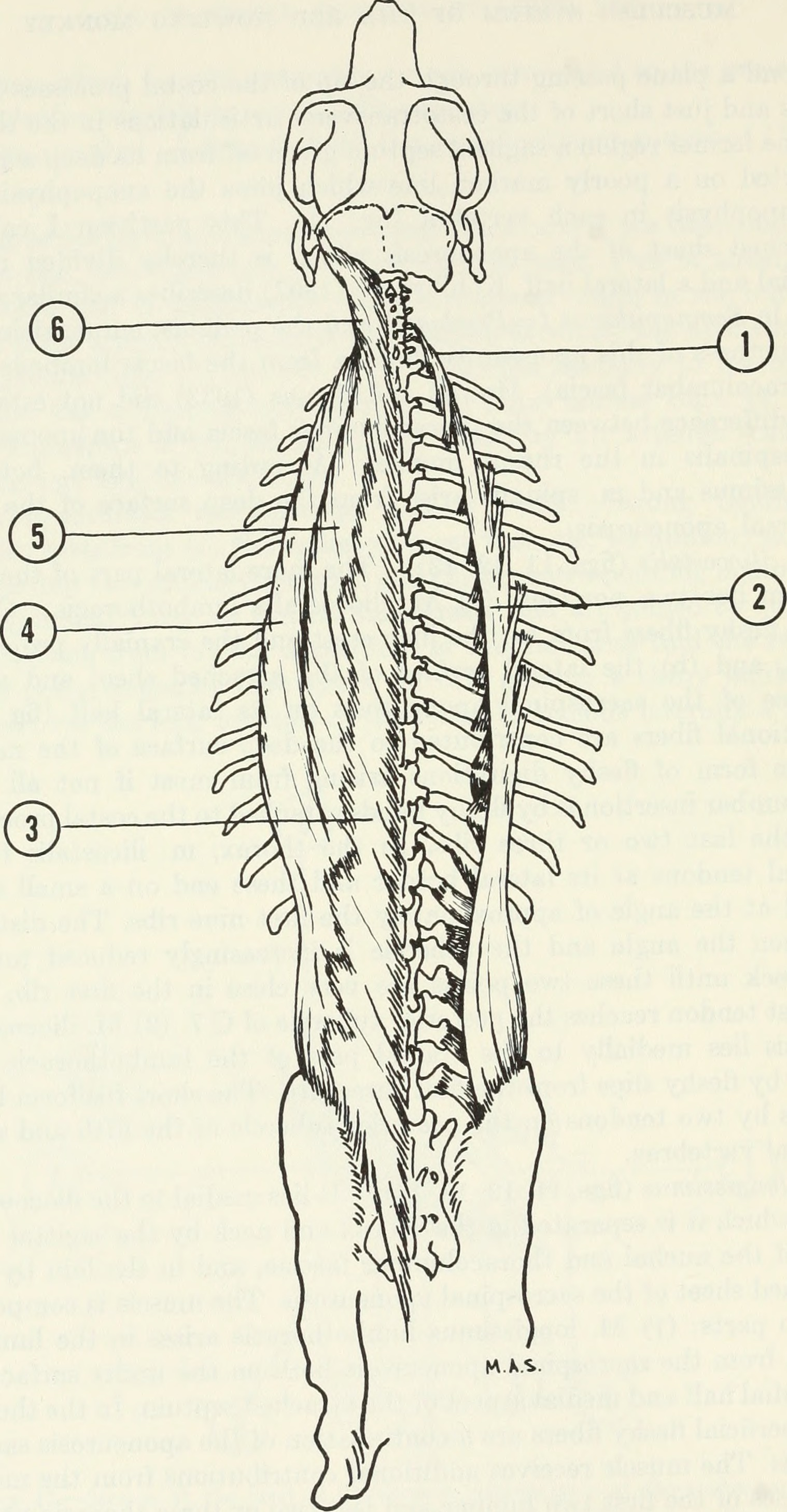 Title: Bulletin - United States National Museum Year: 1877 (1870s) Authors: United States National Museum; Smithsonian Institution; United States. Dept. of the Interior Subjects: Science Publisher: Washington : Smithsonian Institution Press, (etc. ); for sale by the Supt. of Docs. , U. S. Govt Print. Off. Text Appearing Before Image: ' Text Appearing After Image: Figure 13.—The long system of epaxial muscles (1, m. iliocostalis cervicis; 2, m. iliocostalis lumbothoracis; 3, aponeurosis sacrospinalis; 4, m. iliocostalis; 5, m. longissimus lumbo- thracis; 6, m. longissimus cervicis et capitis).